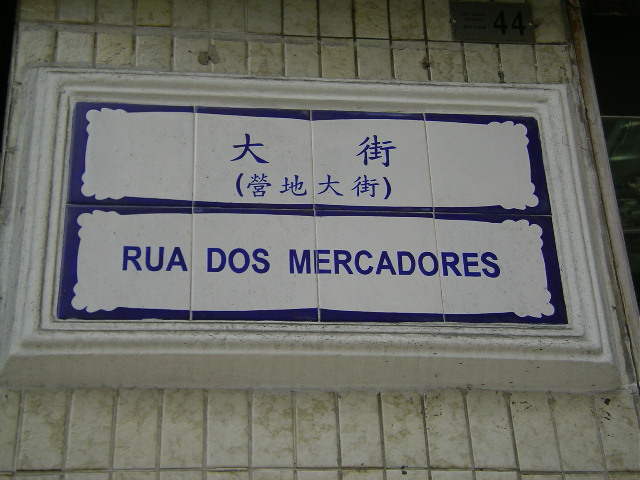 The "Big Street" in Macau.